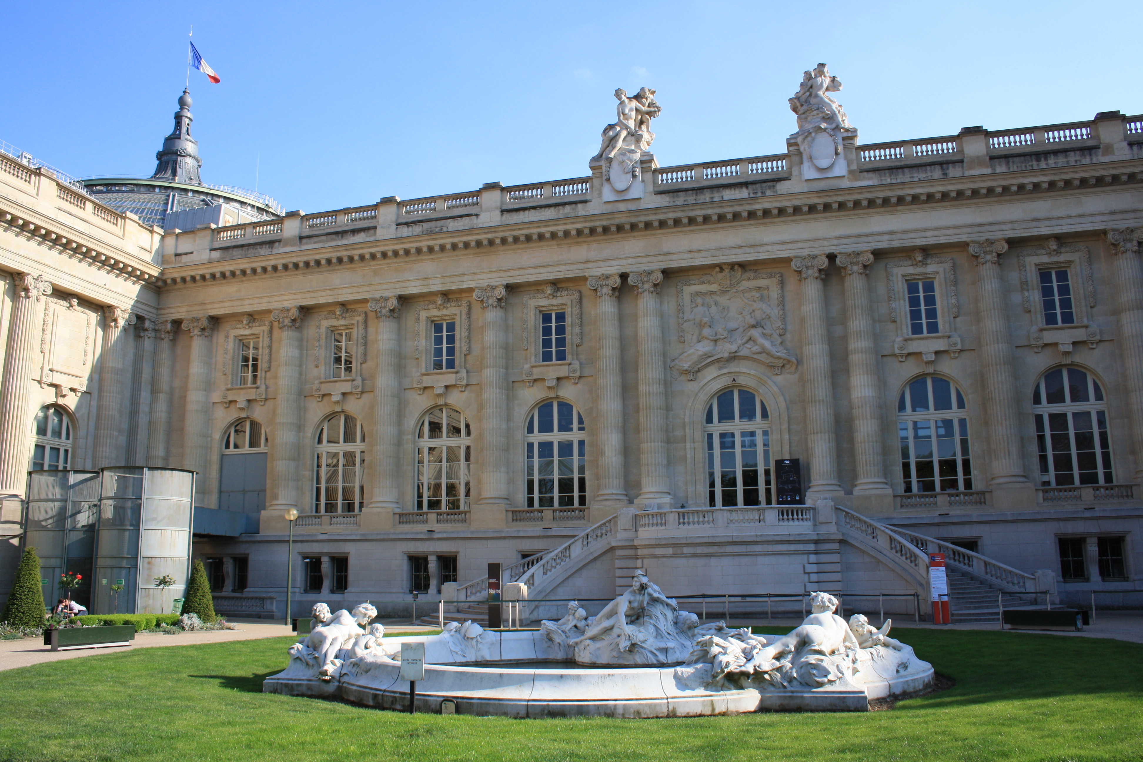 Grand Palais side entrance in Paris, France